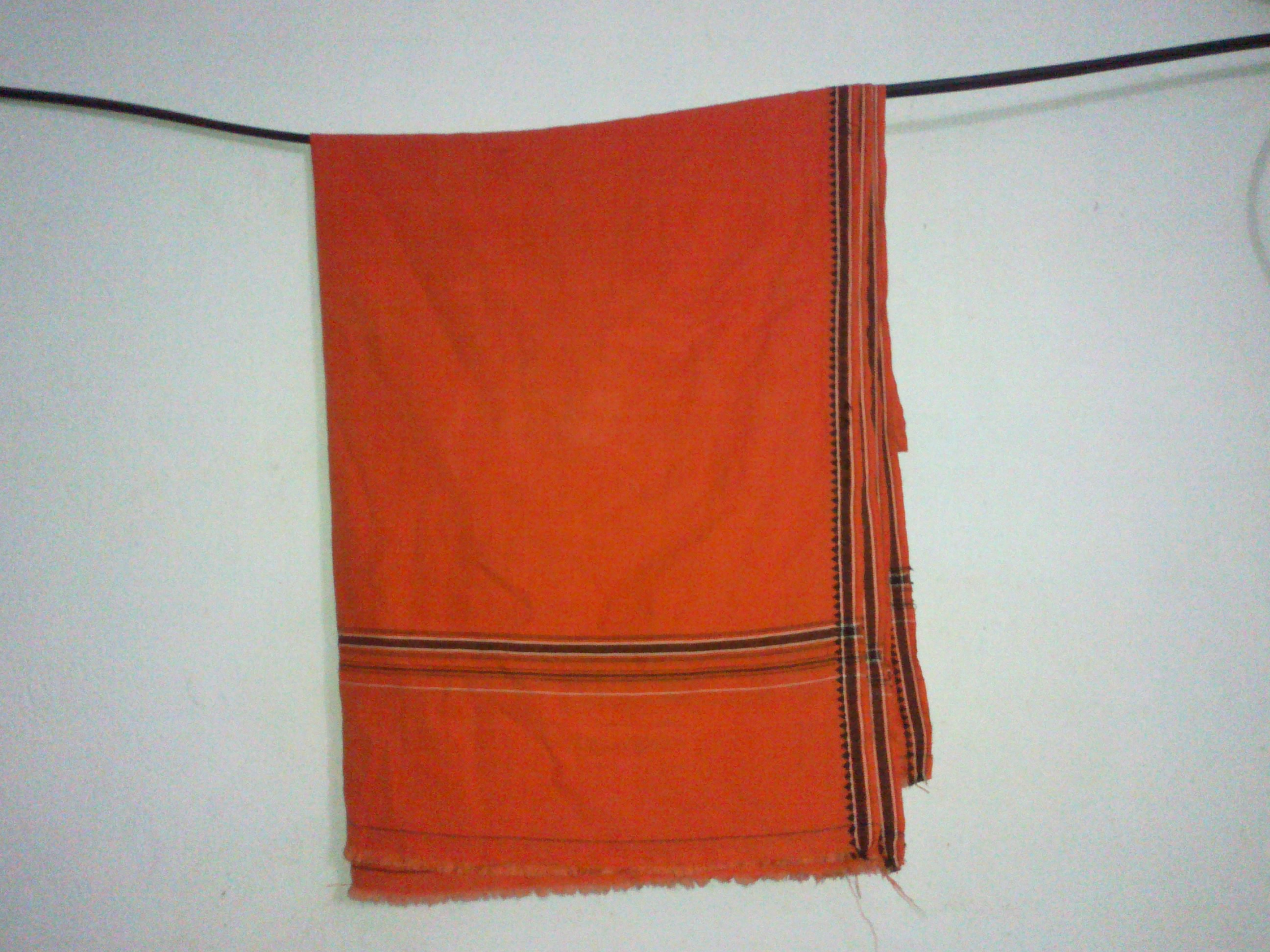 A thin, coarse, traditional cotton towel found in India and Bangladesh